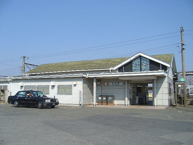 Eiwa Station, Yatomi, Aisai, Japan